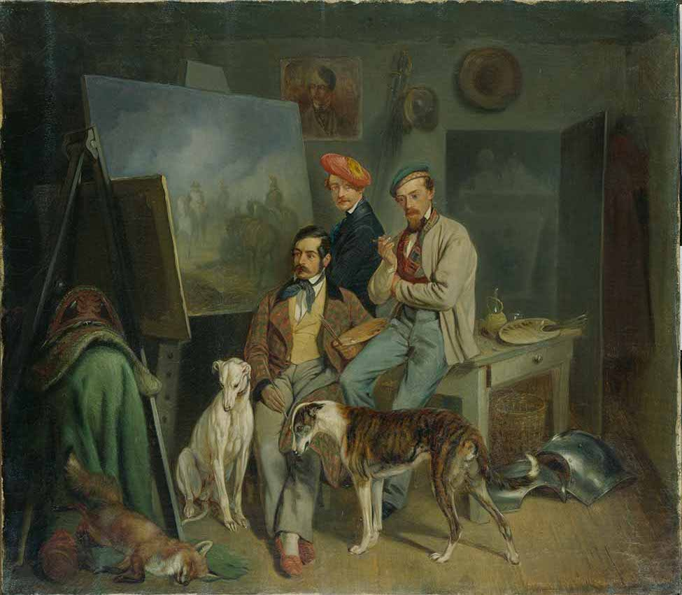 The tree brothers Adam, painters